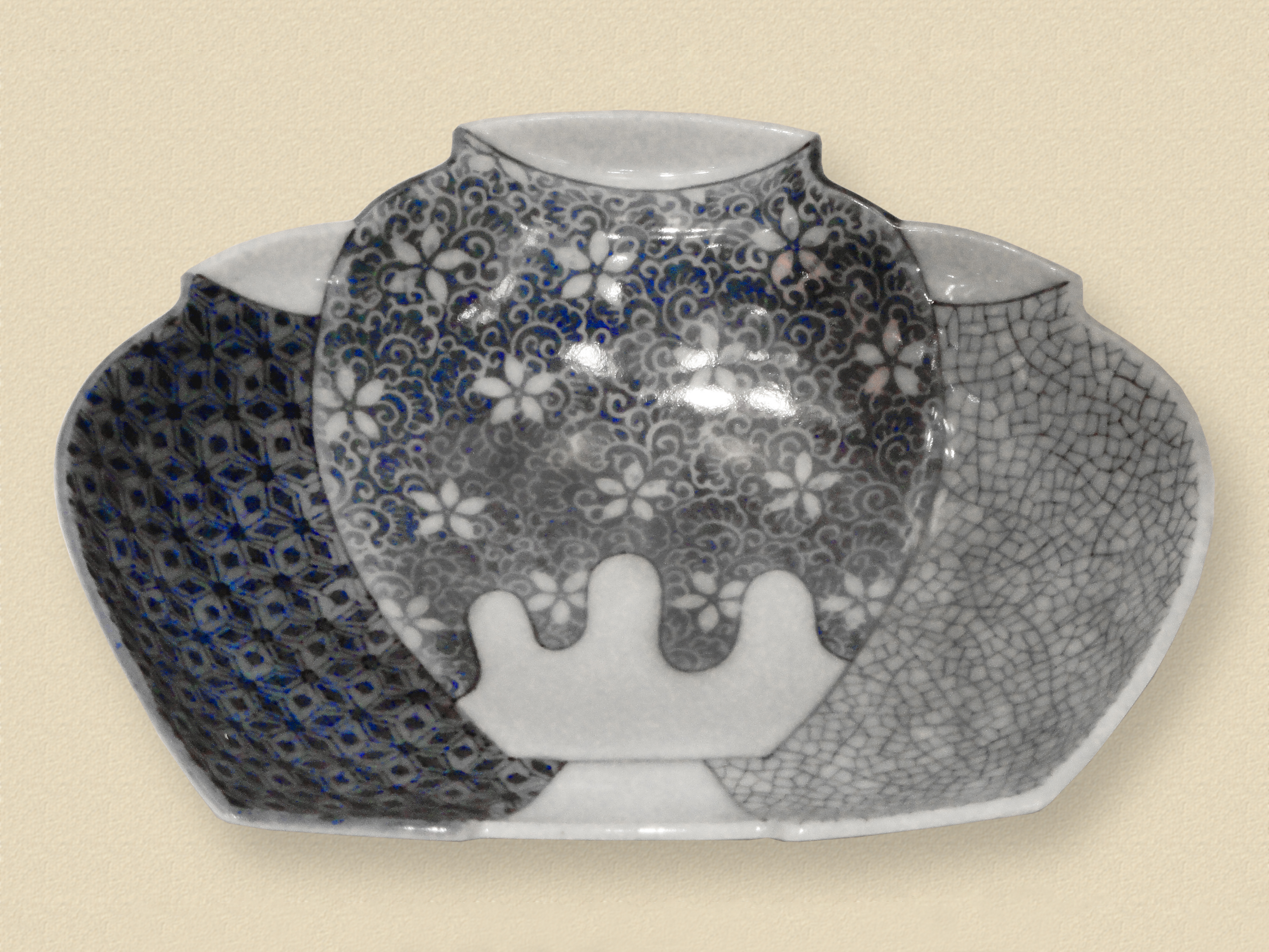 Nabeshima Jar-form Dish, c. 1680-1720, Arita, Okawachi kilns, hard-paste porcelain with underglaze cobalt. Exhibit in the Gardiner Museum, Toronto, Ontario, Canada. This artwork is in the public domain because the artist died more than 70 years ago.